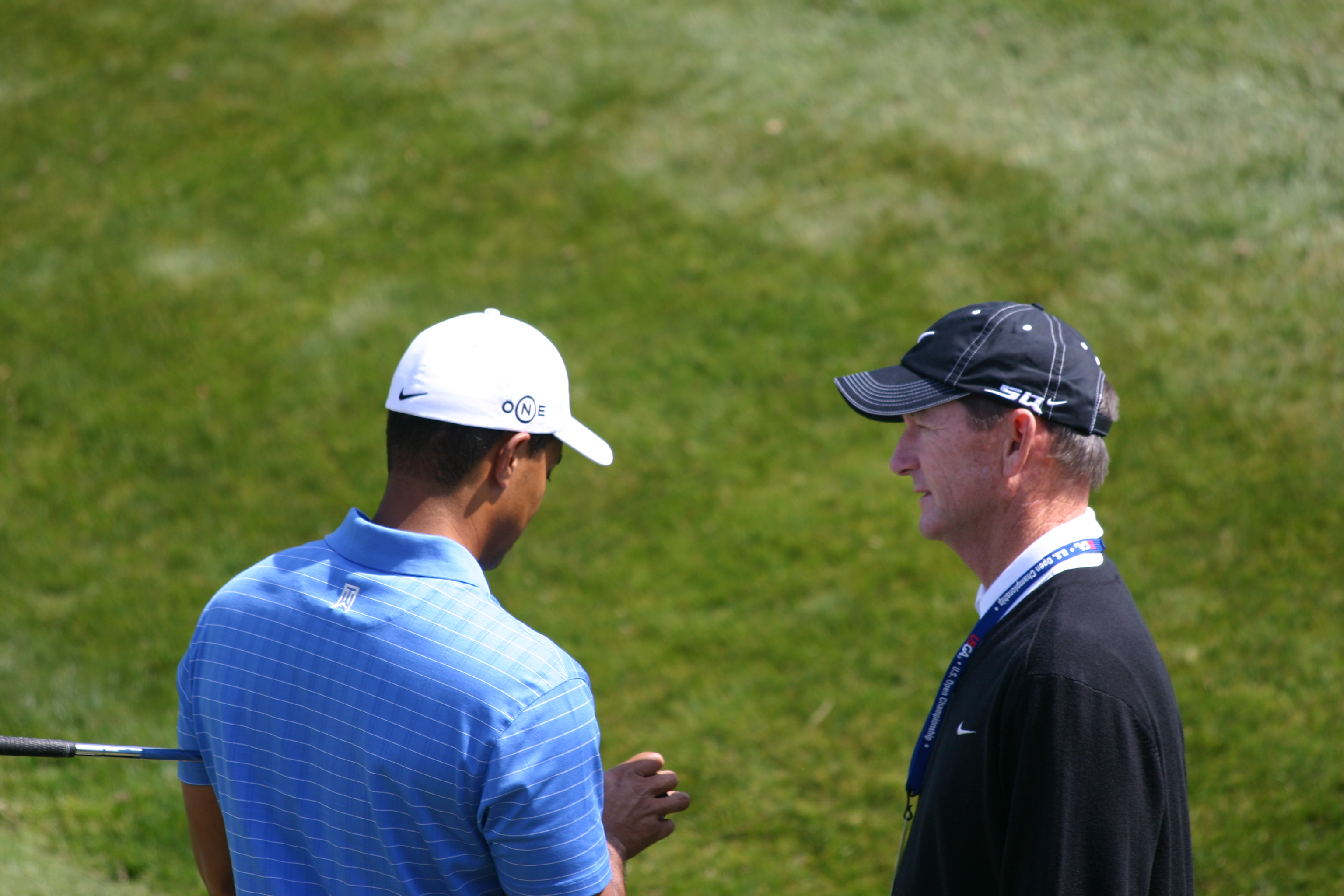 Hank Haney with Tiger Woods